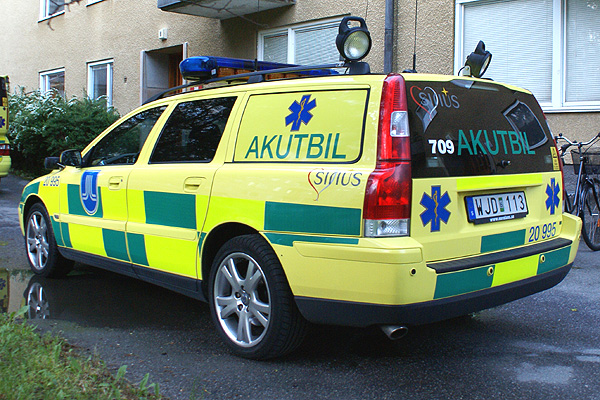 Fly-car (Medic-car), Volvo V70, in Stockholm Sweden